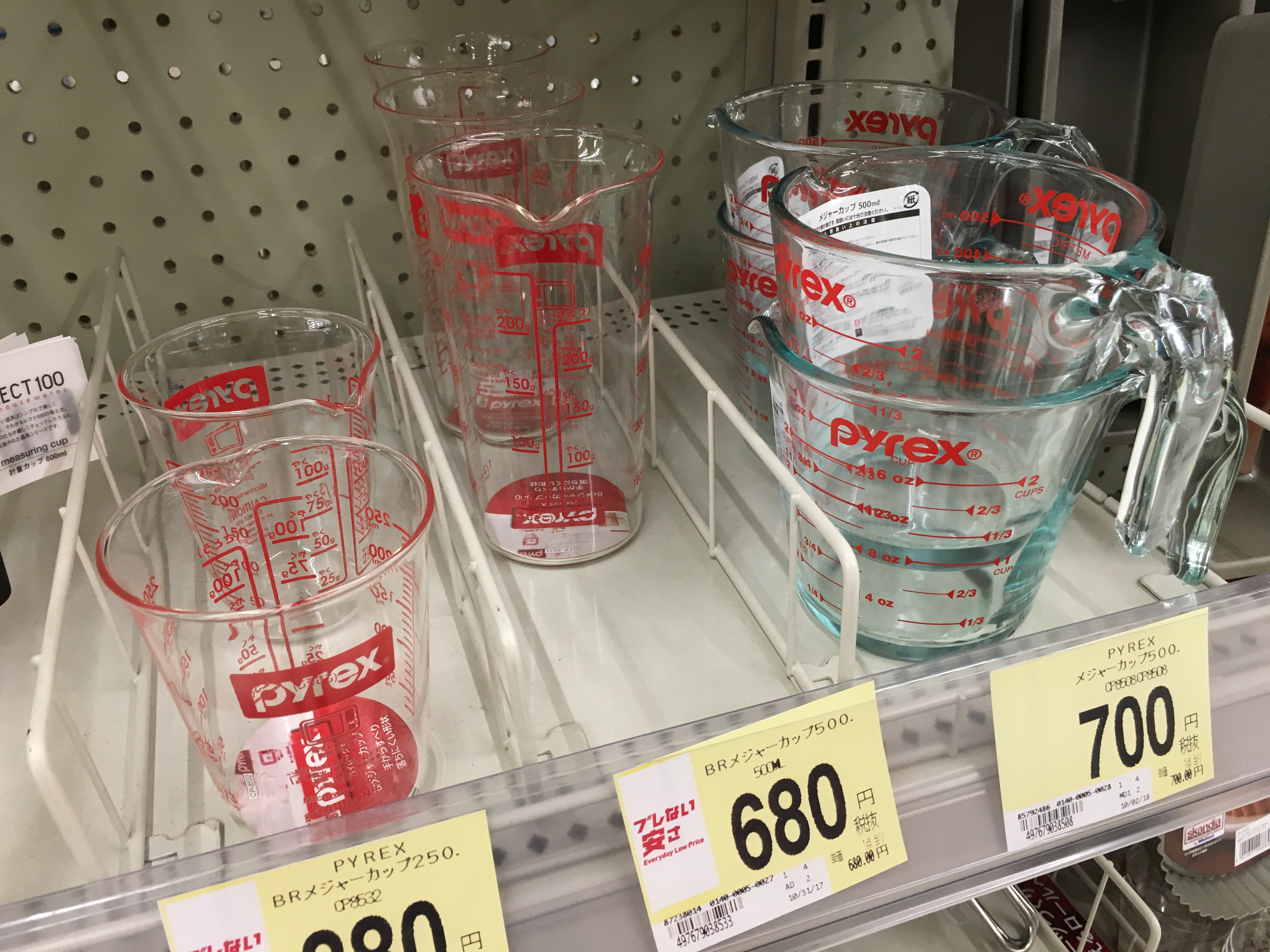 Pyrex for sale in Tokyo area